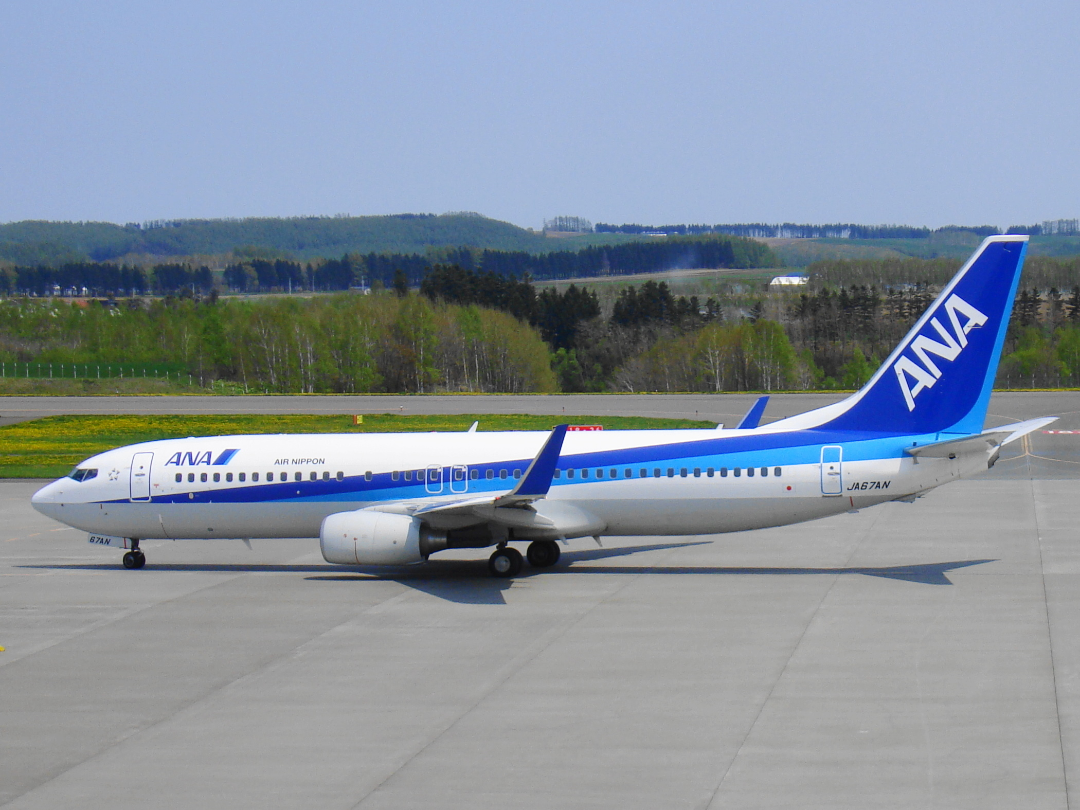 All Nippon Airways Boeing 737-800 JA67AN